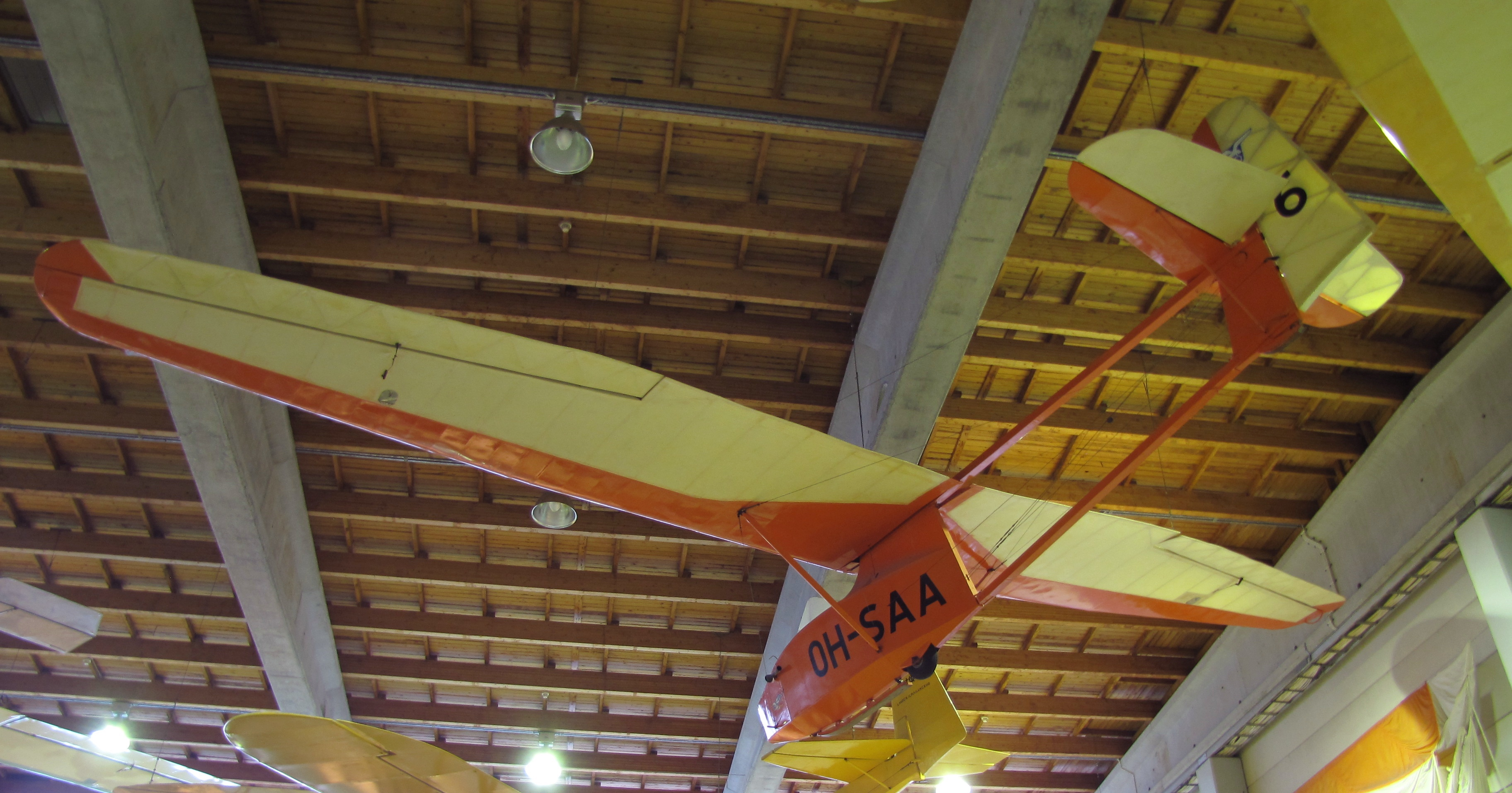 W.W.S.1 Salamandra glider in Finnish Aviation Museum. Purchased by PIK (Polyteknikkojen ilmailukerho) in 1939, used until 1958. Only example of this type in Finland, c/n 147. Original registration OH-PIK 6.